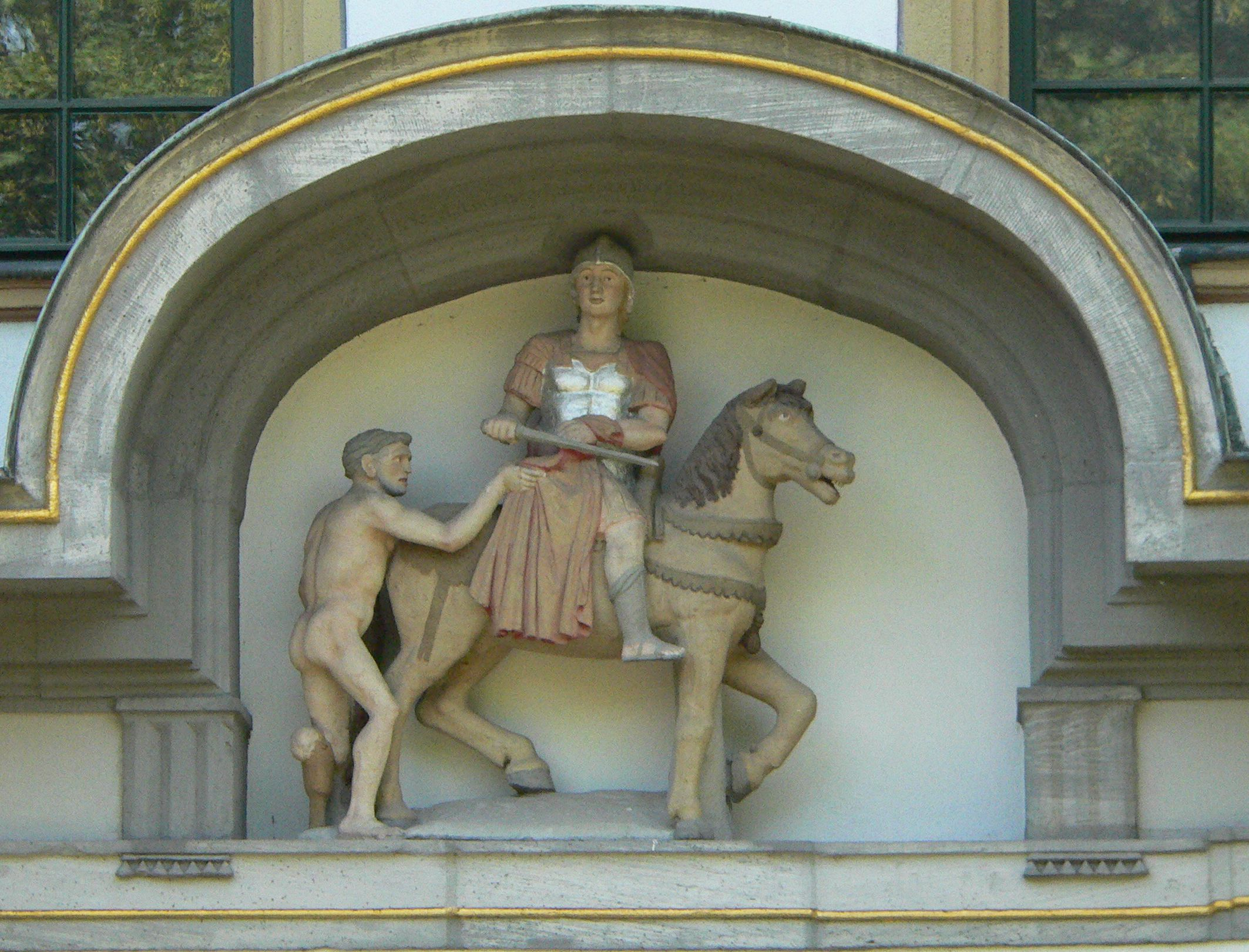 Statue of Saint Martin cutting his cloak in two above the Höchst Castle's gate